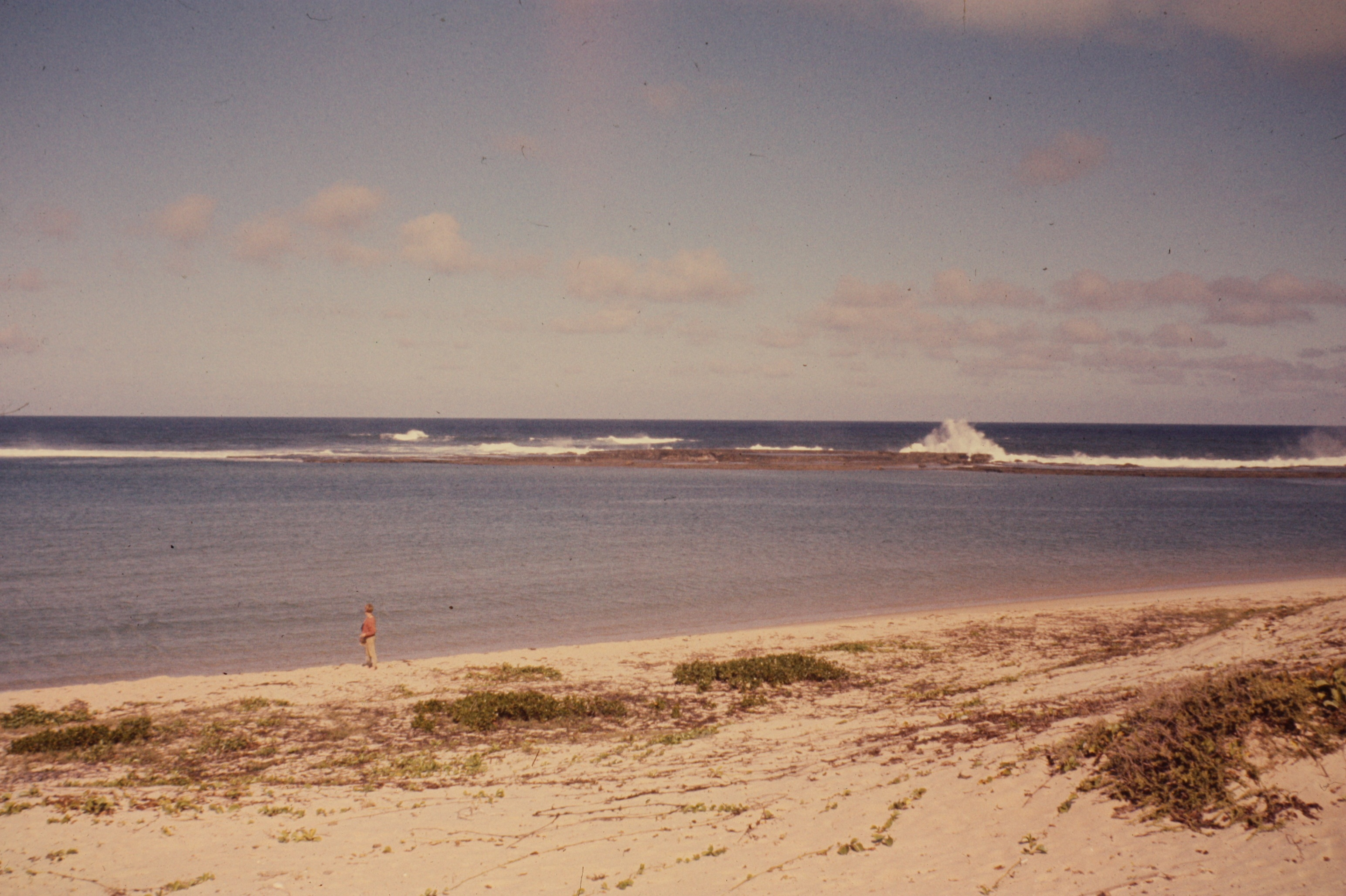 Taken in Madagascar in the mid-1970's. Faux Cap.